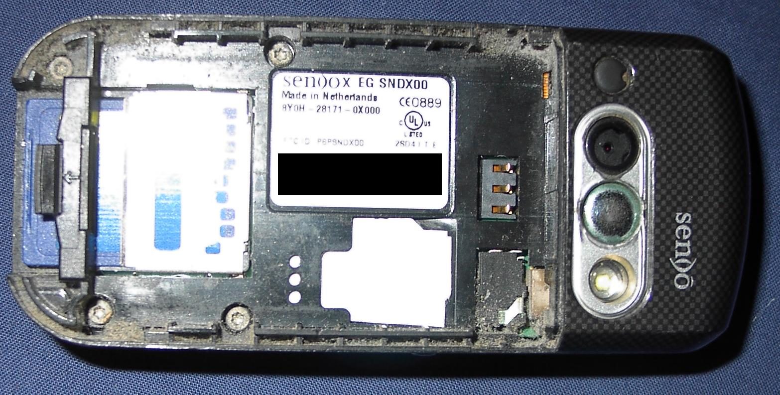 This picture shows the backside and battery compartment including model number sticker (IMEI cut out) of a Sendo model X mobile phone that is still in use to this day.